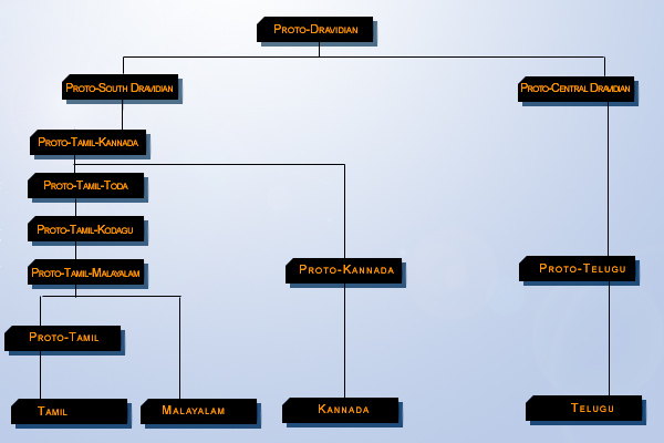 The Critical Path of the four main South Indian Dravidian Languages somewhere in the path another language called Tulu ( spoken mainly in dakshina karnataka) has to figure as it is pretty similar to kodagu